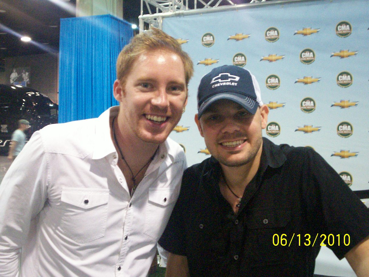 Country music duo Fast Ryde at CMA Music Fest, June 2010. James Harrison (left) and Jody Stevens.